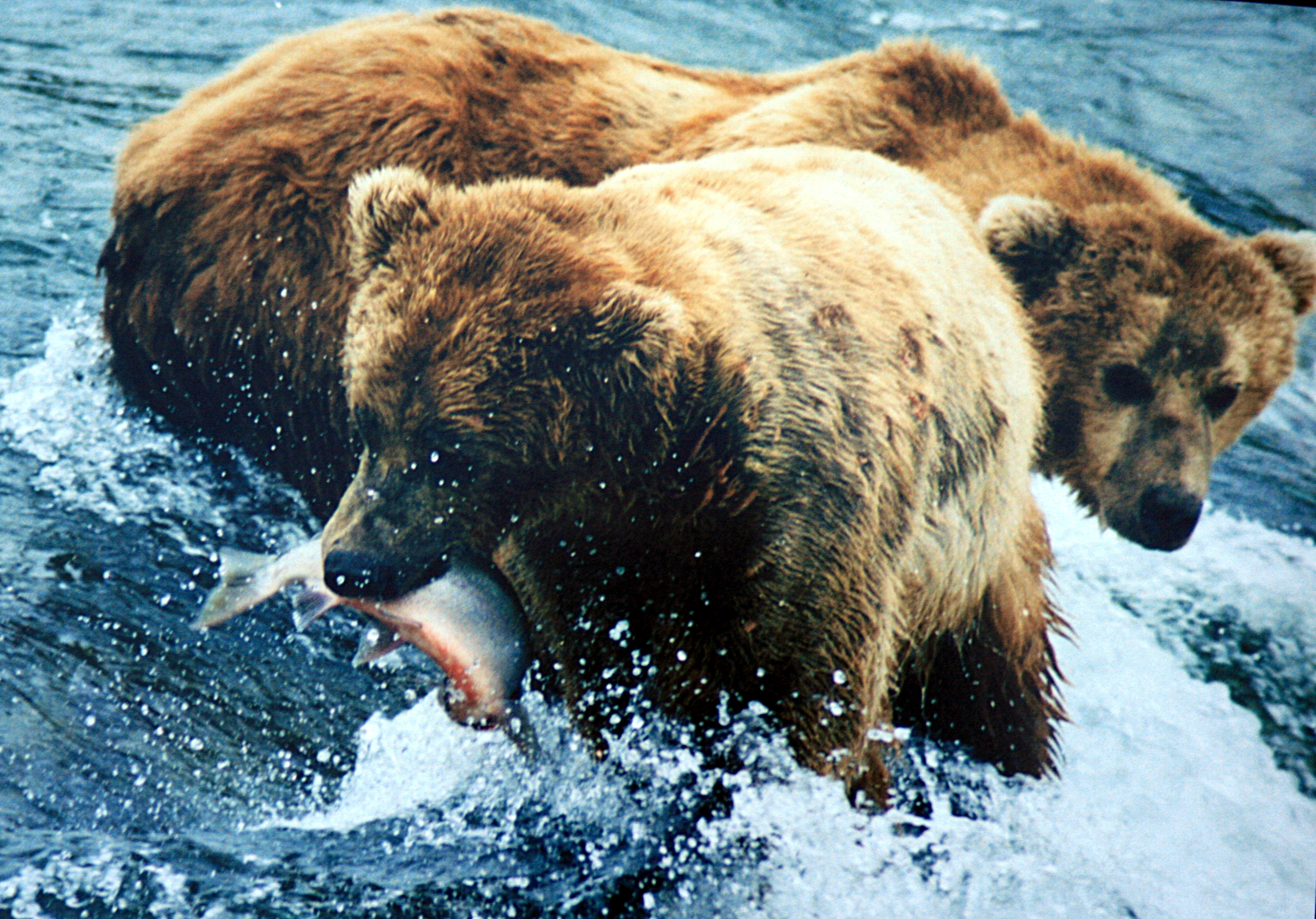 Brown bears at Brooks Falls Katmai National Park. Photograped by Brocken Inaglory in July of 1998. The picture is a digital picture of my old film picture.